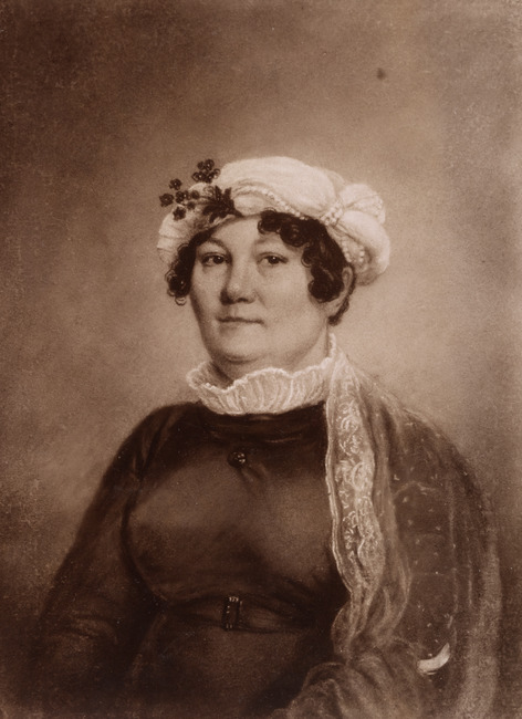 Portrait of Johanna Hendrina Catharina Slengarde, born 27-02-1765 in Guyana, died 15-09-1829 in Bath (England)